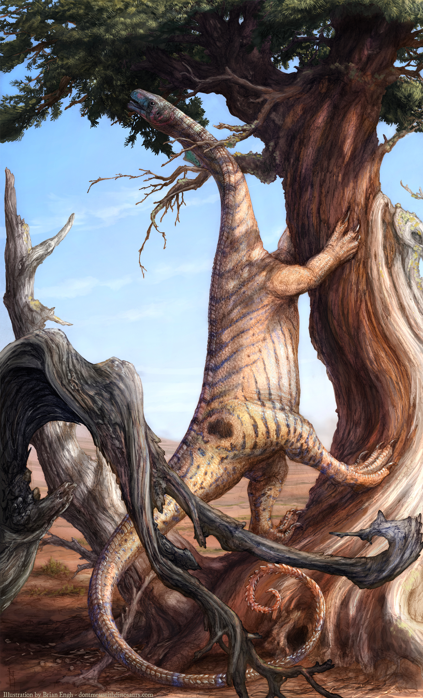 Life restoration of Sarahsaurus aurifontanalis showing the bipedal bauplan shared by Sarahsaurus and other massospondylid sauropodomorphs.